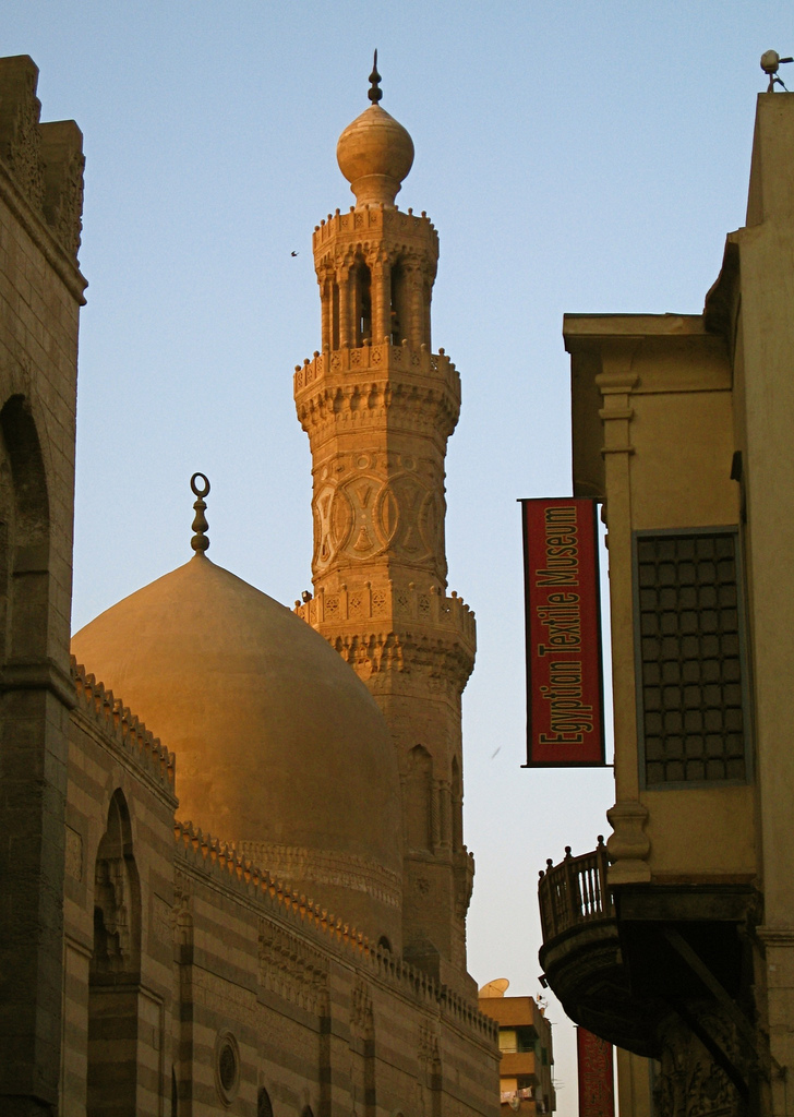 Dome and Minaret of Complex of Barquq in Cairo, built 1384-1386